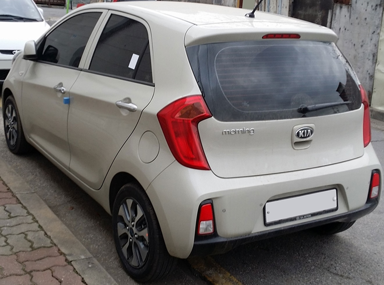 Kia The New Morning